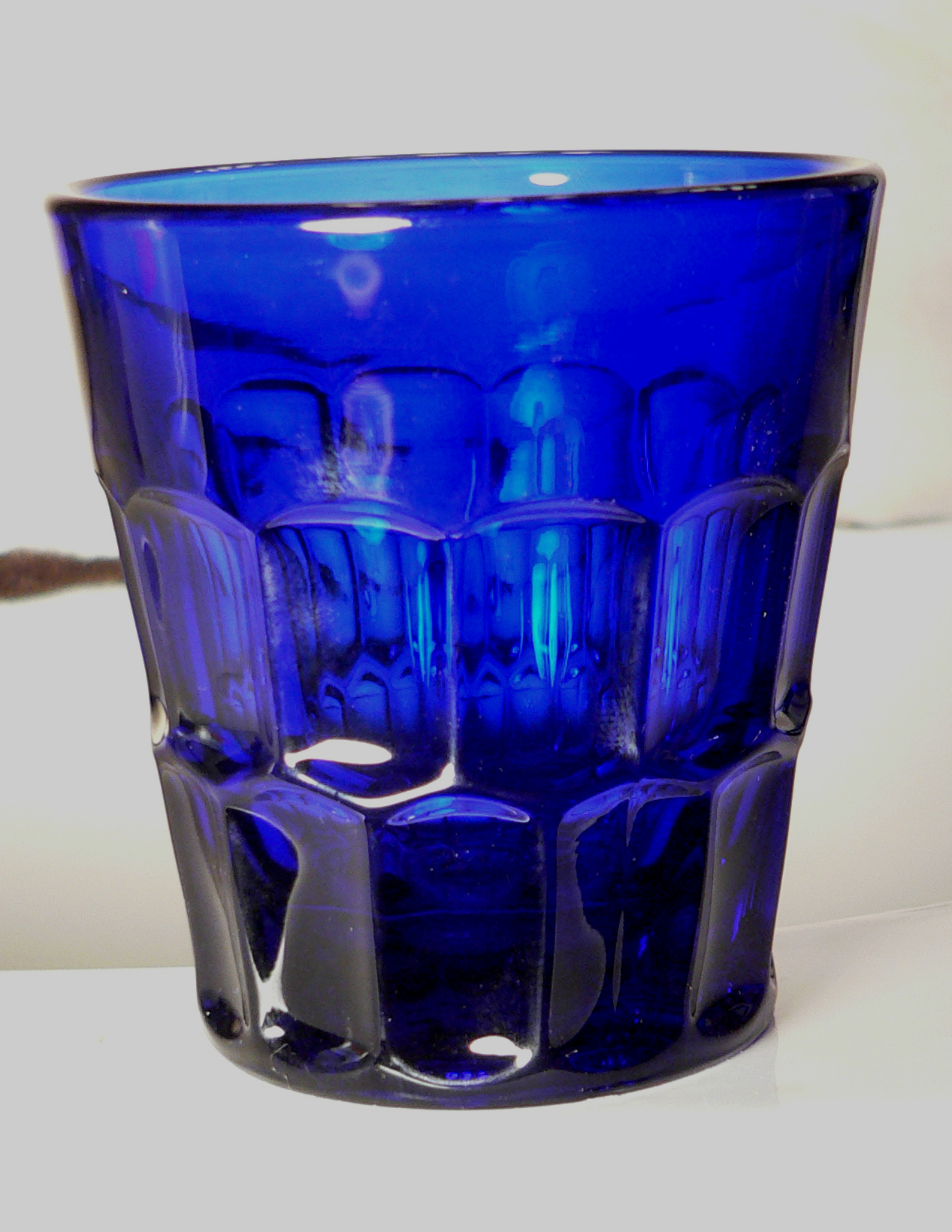 New Martinsville Glass - Hostmaster 7 oz Tumbler in Cobalt Blue. copyright status of Hostmaster Pattern is unknown. This pattern was made in the 1930's. The company no longer exists. The molds for this pattern no longer exist - they were destroyed in the 30's [1]